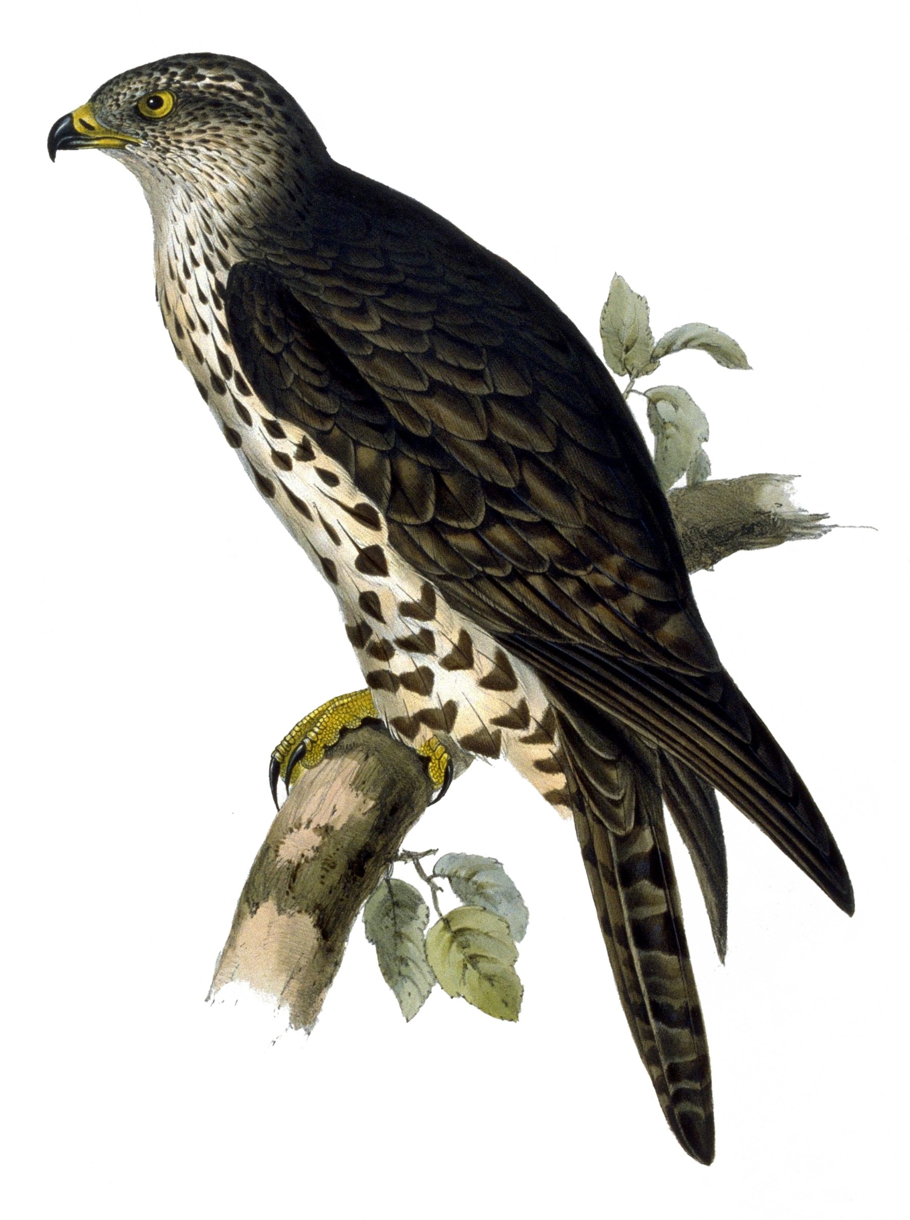 Pernis apivorus (Honey Buzzard) Lithograph with hand coloring 40.7 x 29.2 cm (image); 54 x 35.4 cm (sheet) Achenbach Foundation for Graphic Arts 1963.30.2015